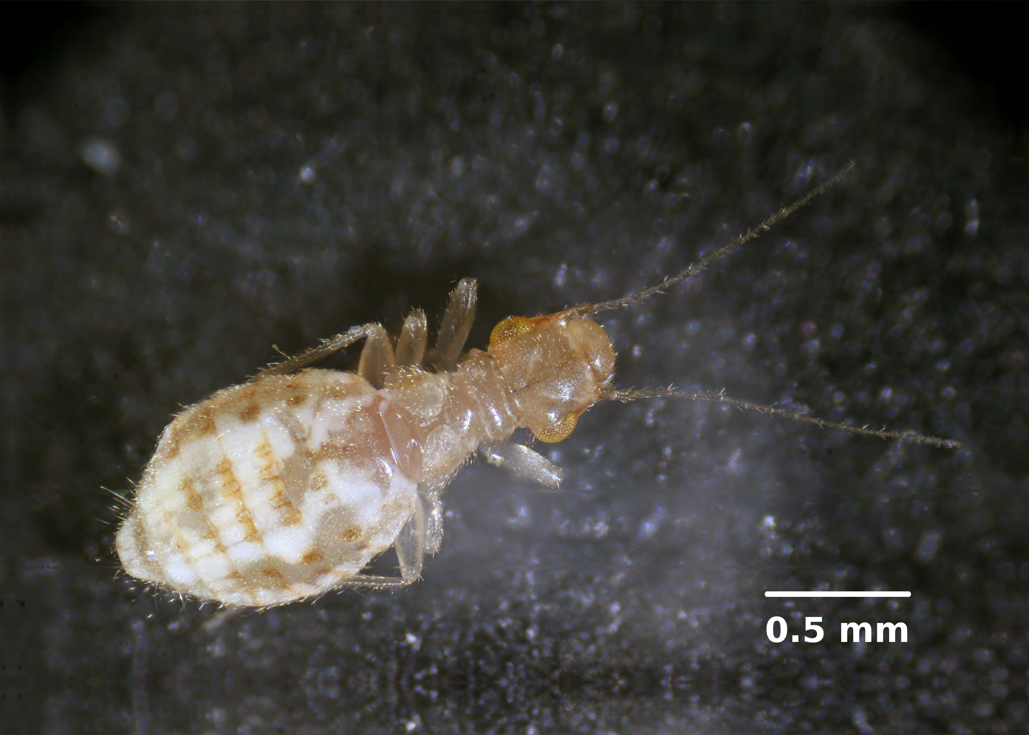 A paperlouse/booklouse. Wellington, New Zealand. This picture created by combining photographs taken through a microscope.